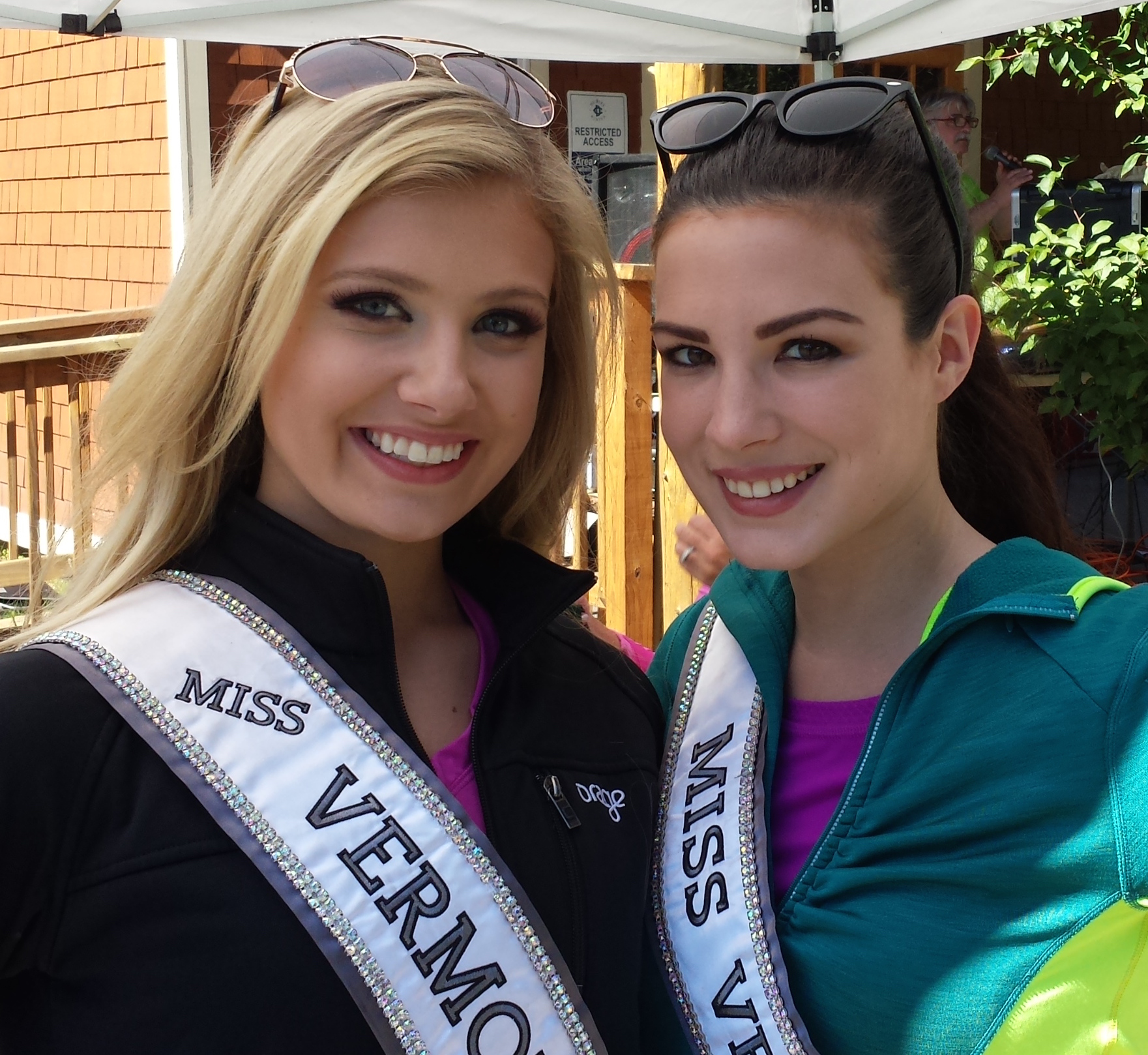 Miss Vermont Teen USA, Alexandra Marek, and Miss Vermont USA, Jackie Croft. (l-r) Photo was taken at the 2015 Green Mountain Iron Dog competition.